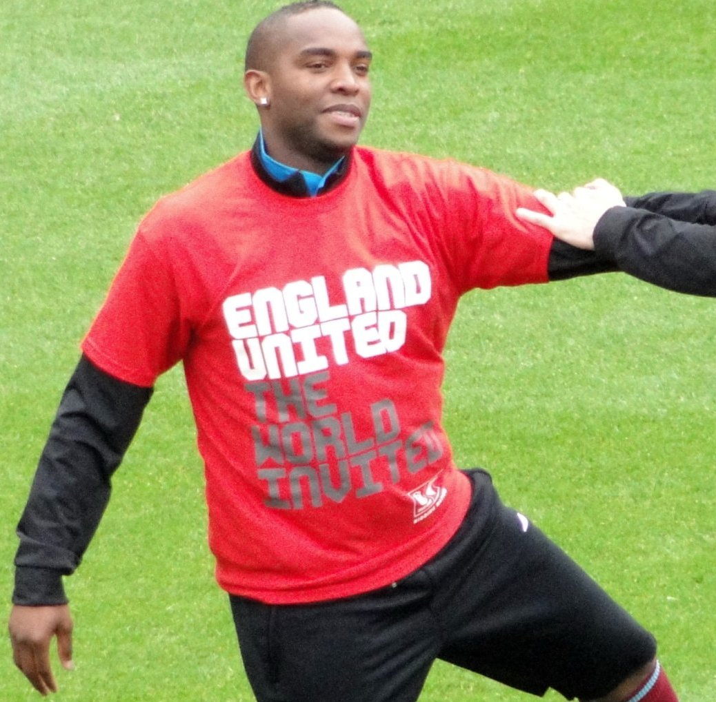 Benni McCarthy, wearing T-Shirt supporting England's 2018 World Cup campaign, warms up before West Ham's game on 9/5/10 against Manchester City.